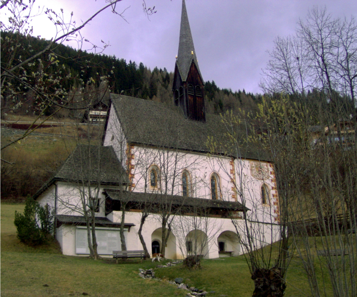 Chapel Sankt Kathrein in Bad Kleinkirchheim, a small village in the Central Eastern Alps (Nock Mountains) Carinthia / Austria / European Union.